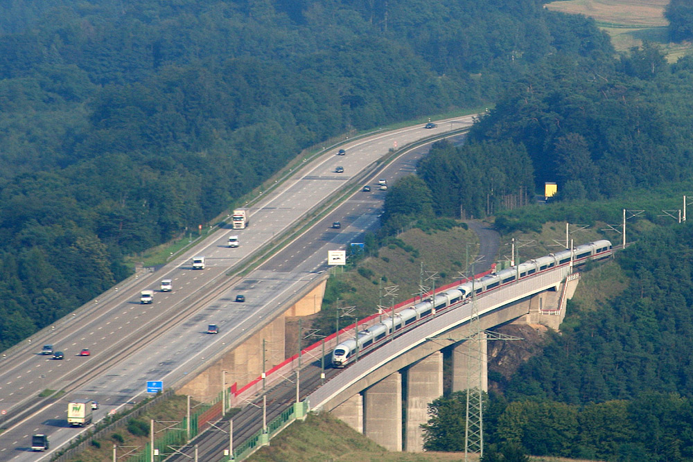 Wiedtal bridge on the Cologne-Frankfurt high-speed railway line